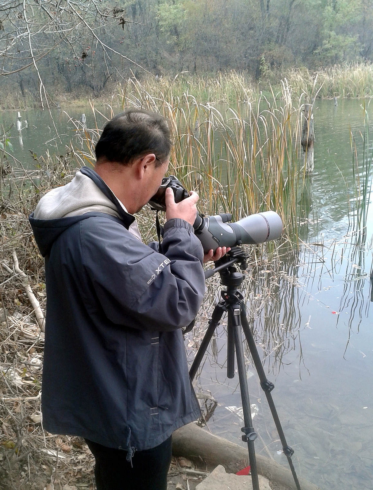 An example of digiscoping - using a spotting scope and special mount to take photos. In this case the person is using a Vortex scope and Nikon D5100 with 50mm lens. The tripod is rather light, better results would be achieved by using a heavier tripod to dampen vibrations.